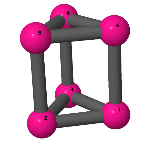 Simple cubic hamiltonian graph with 6 vertices. Vertex enumeration is to indicate a Hamiltonian cycle.